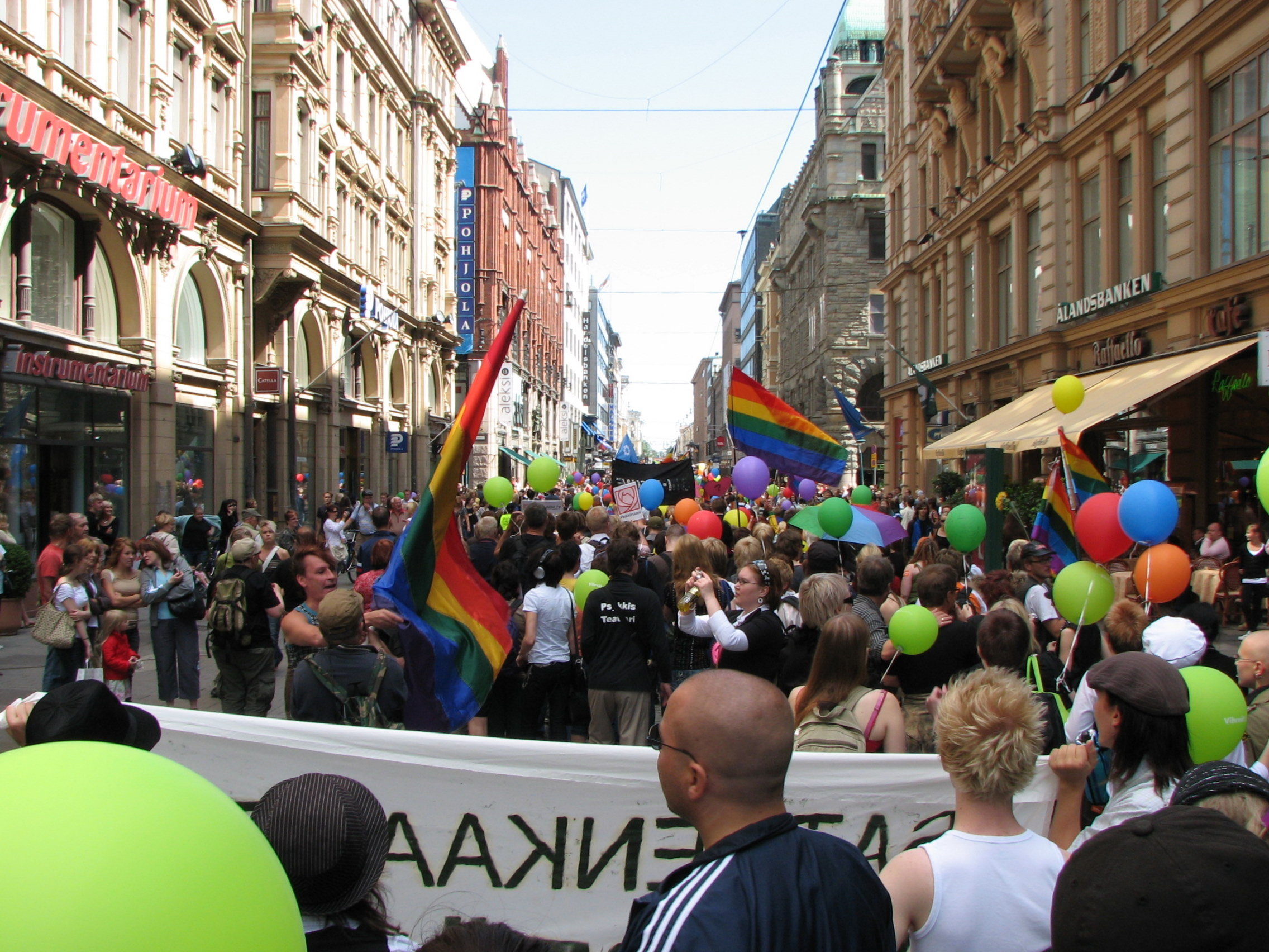 Helsinki Pride 2007 march coursing through Aleksanterinkatu.